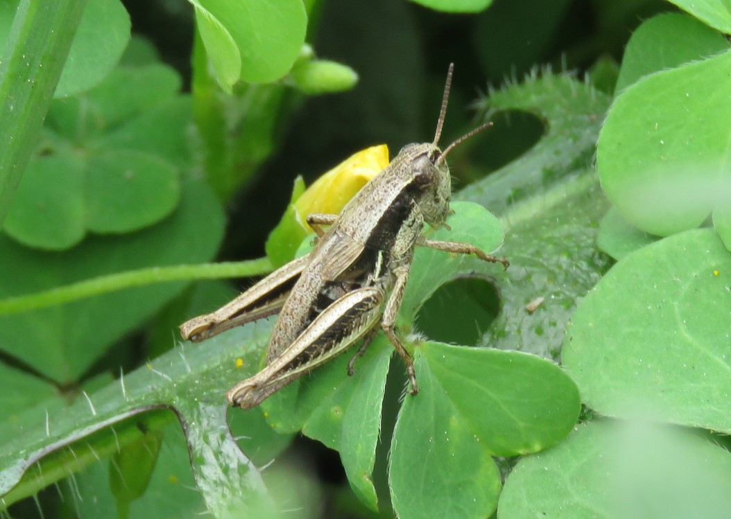 Bogotacris varicolor. Species of insect.